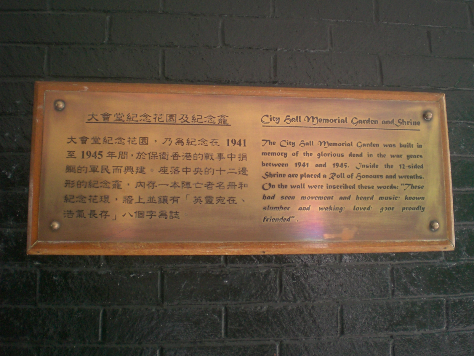 中環 香港大會堂紀念花園 紀念牌匾